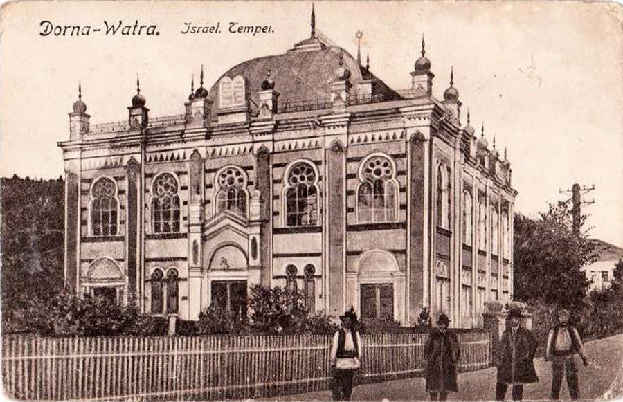 The Jewish Temple in Vatra Dornei, Bukowina, Austro-Hungary (now in Romania) - old postcard published before 1918